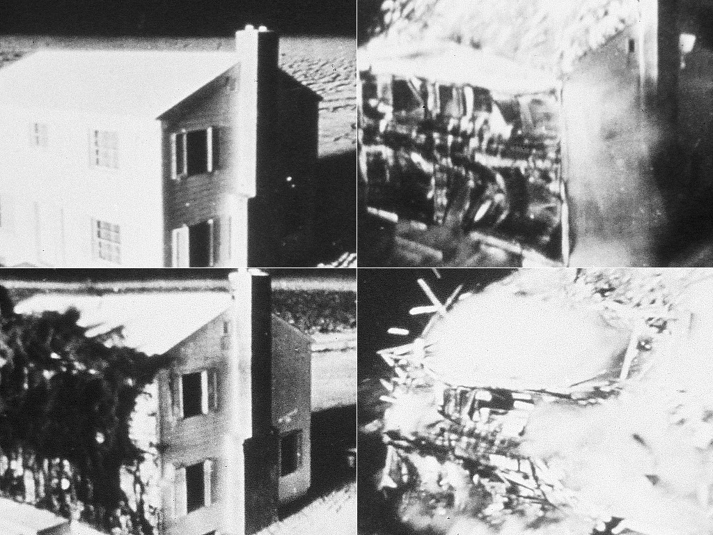 Frame House destroyed by nuclear blast on March 17, 1953, Nevada Test Site. Annie shot of Operation Upshot-Knothole, 16 kilotons, detonated atop 300 ft tower. Overpressure at house location 5 psi.